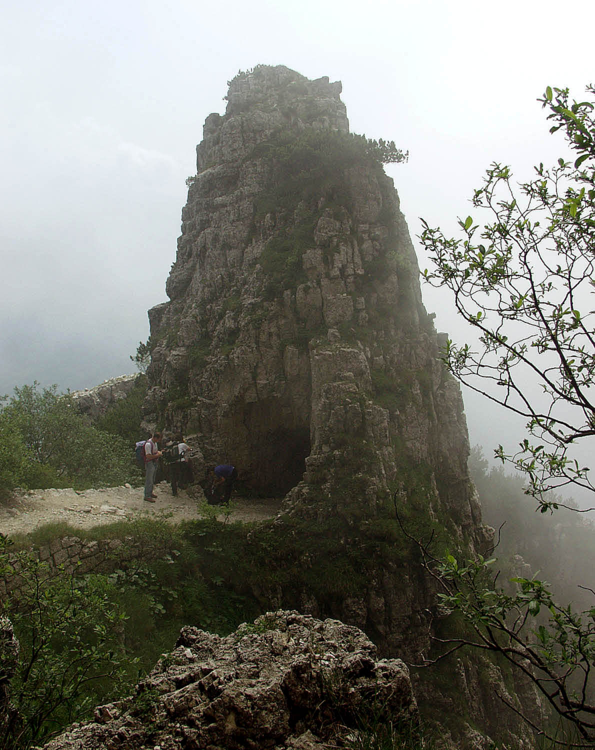 Upper portal of the tunnel no. 20 of the Strada delle Gallerie